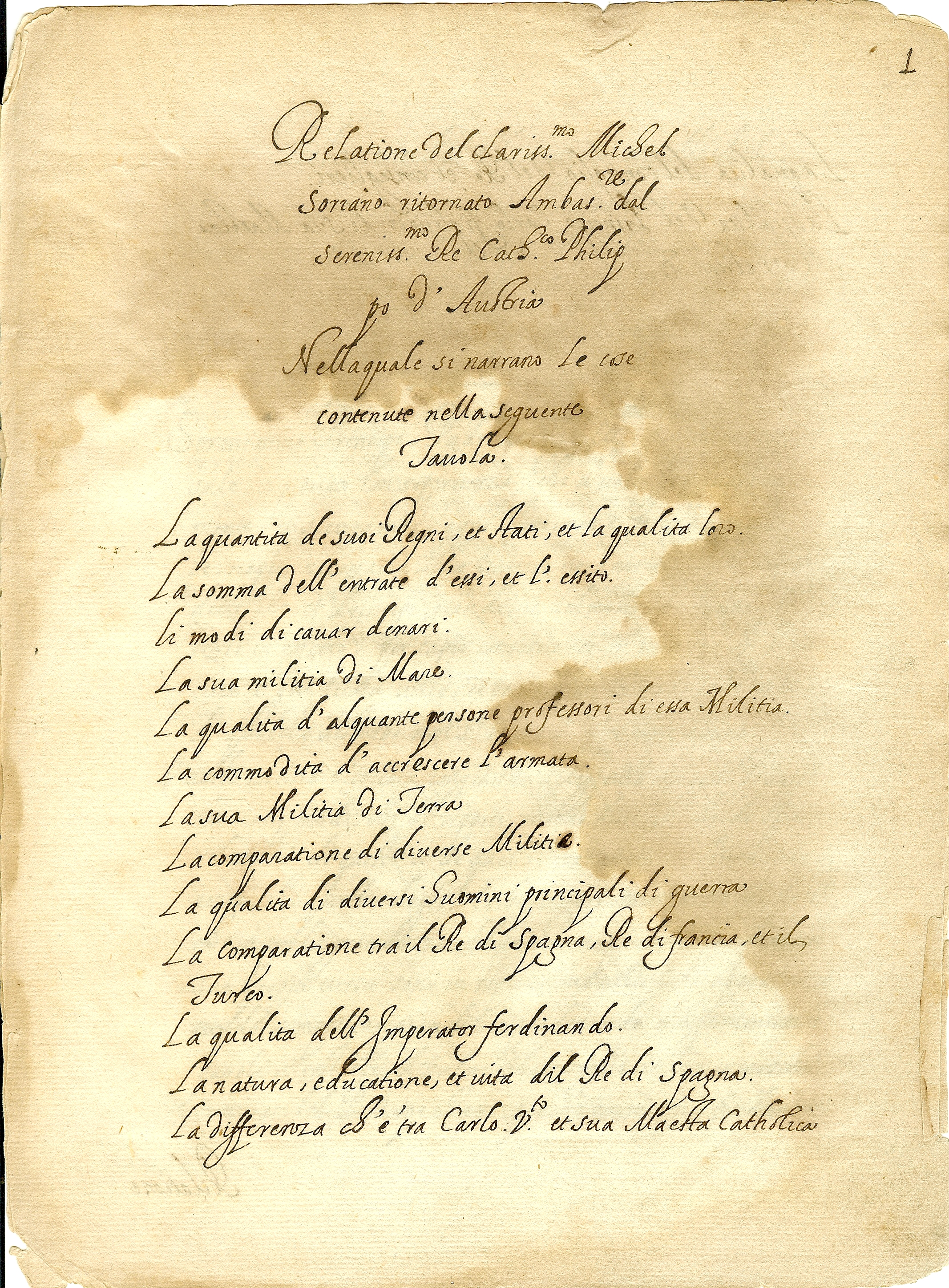 This is a copy of a manuscript of the title page of Michel Soriano's Relatione (Report) to the Venetian state on his service as ambassador to Philip II of Spain, originally written in 1560.